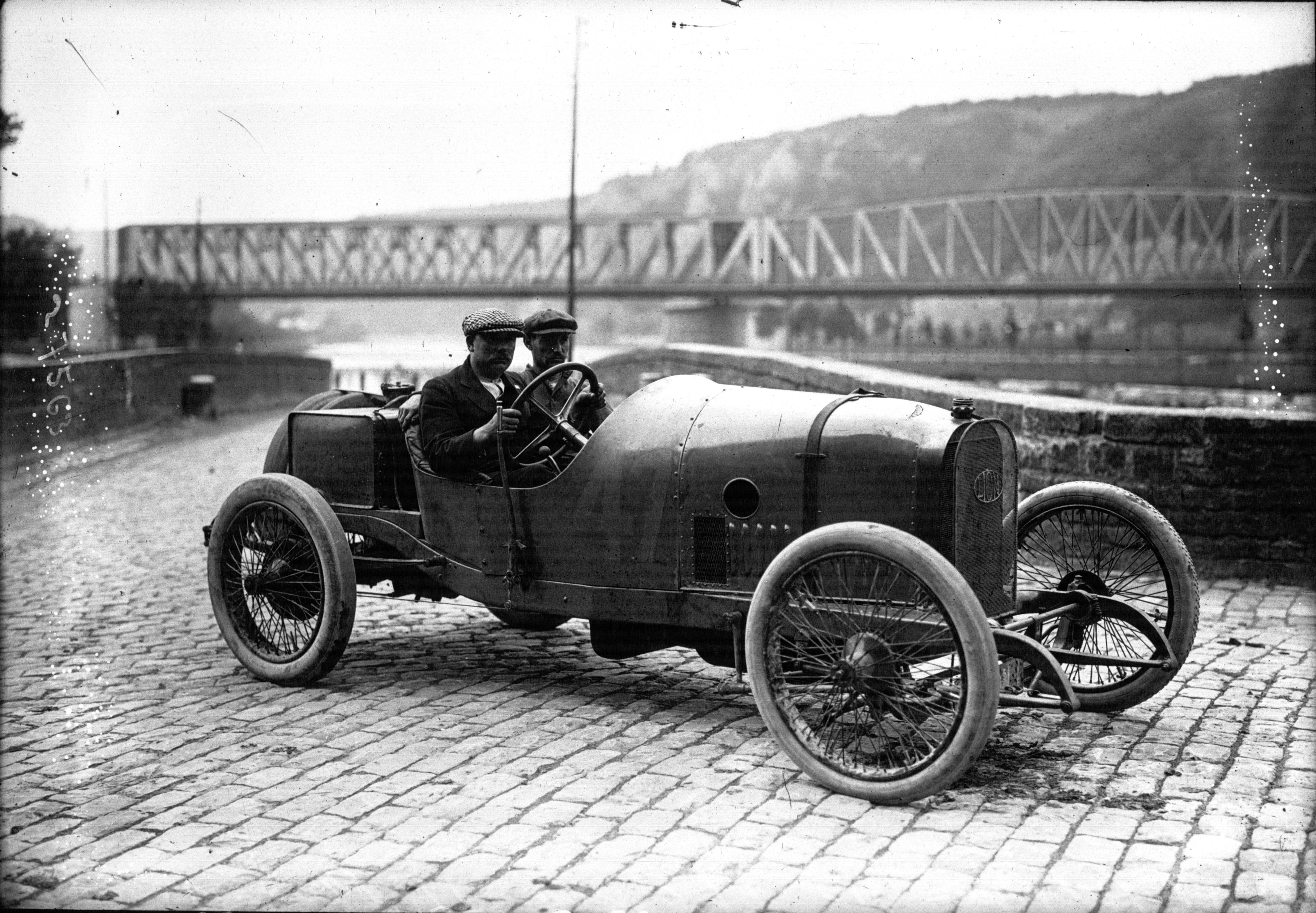 René Thomas at the 1912 Belgian Grand Prix.